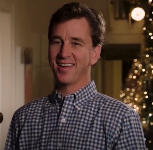 In 2018